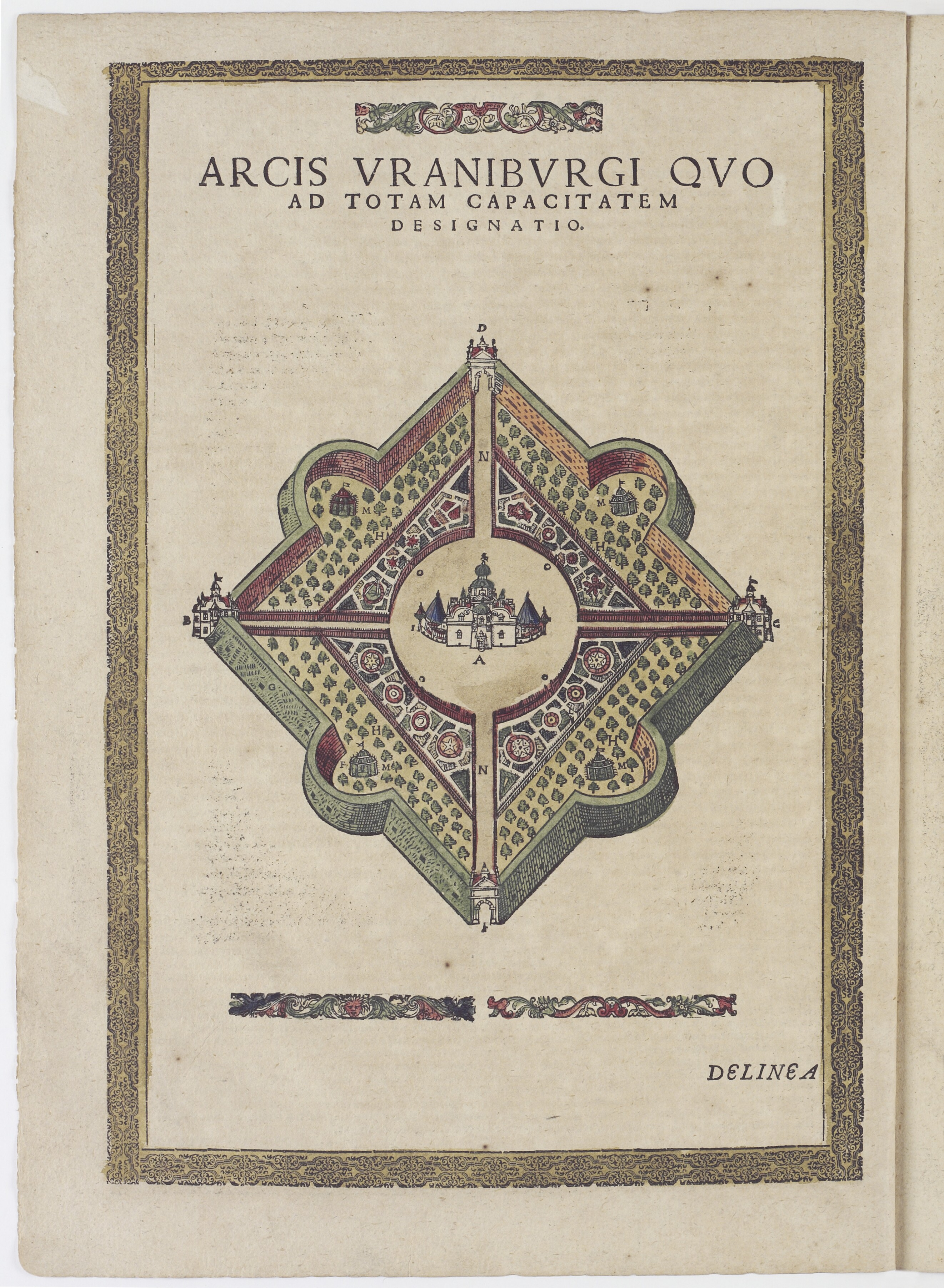 Woodcut of Tycho Brahe's Uraniborg palace-observatory from his 1598 book Astronomiæ instauratæ mechanica